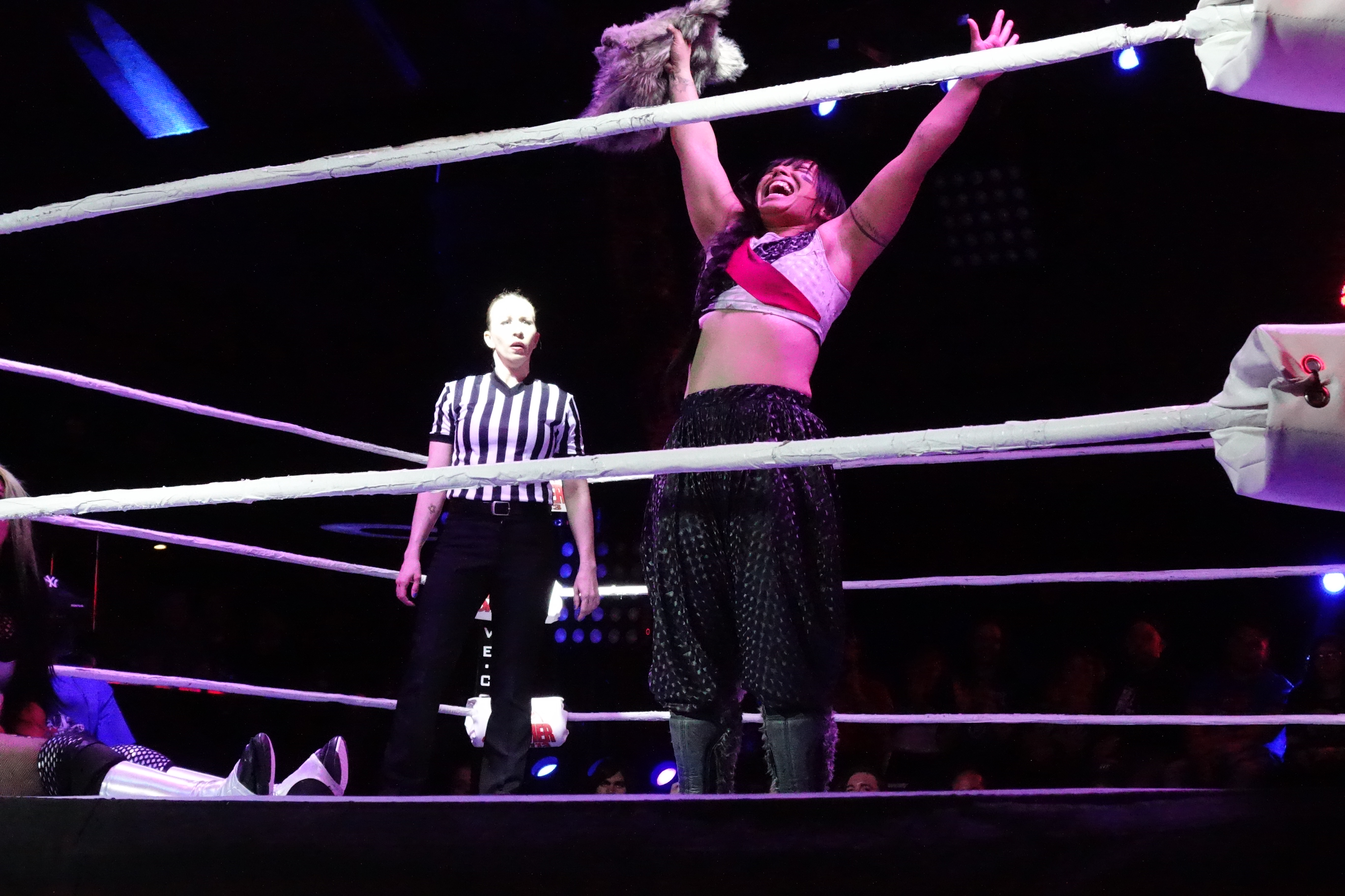 Kris Logan